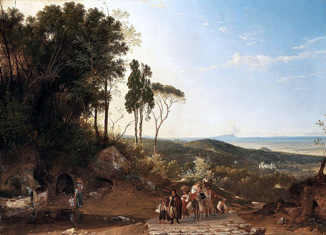 Ariccia is a small town in the Roman Campagna near Rome, Italy.